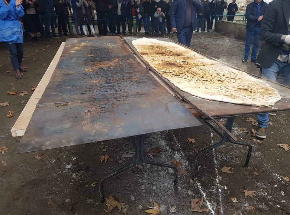 zhengyalov hats rekord 2